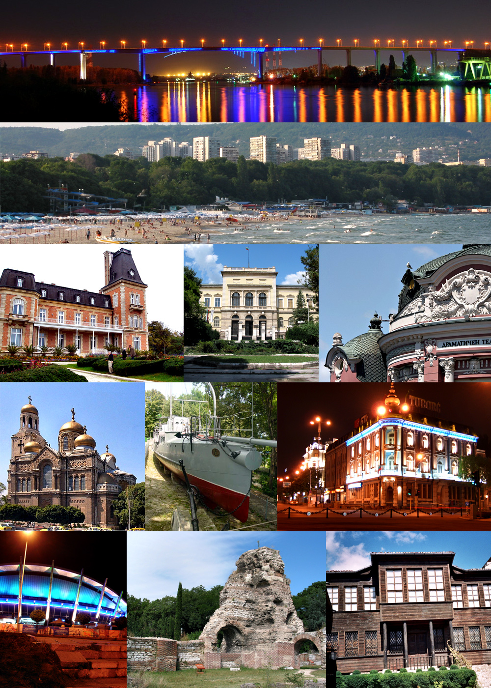 Collage of the landmarks of Varna, Bulgaria